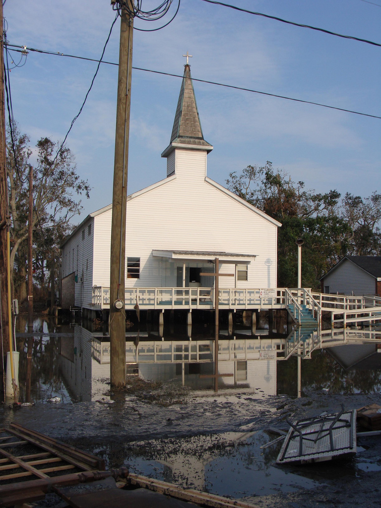 Church in Dulac, Louisiana, with flooding after Hurricane Ike